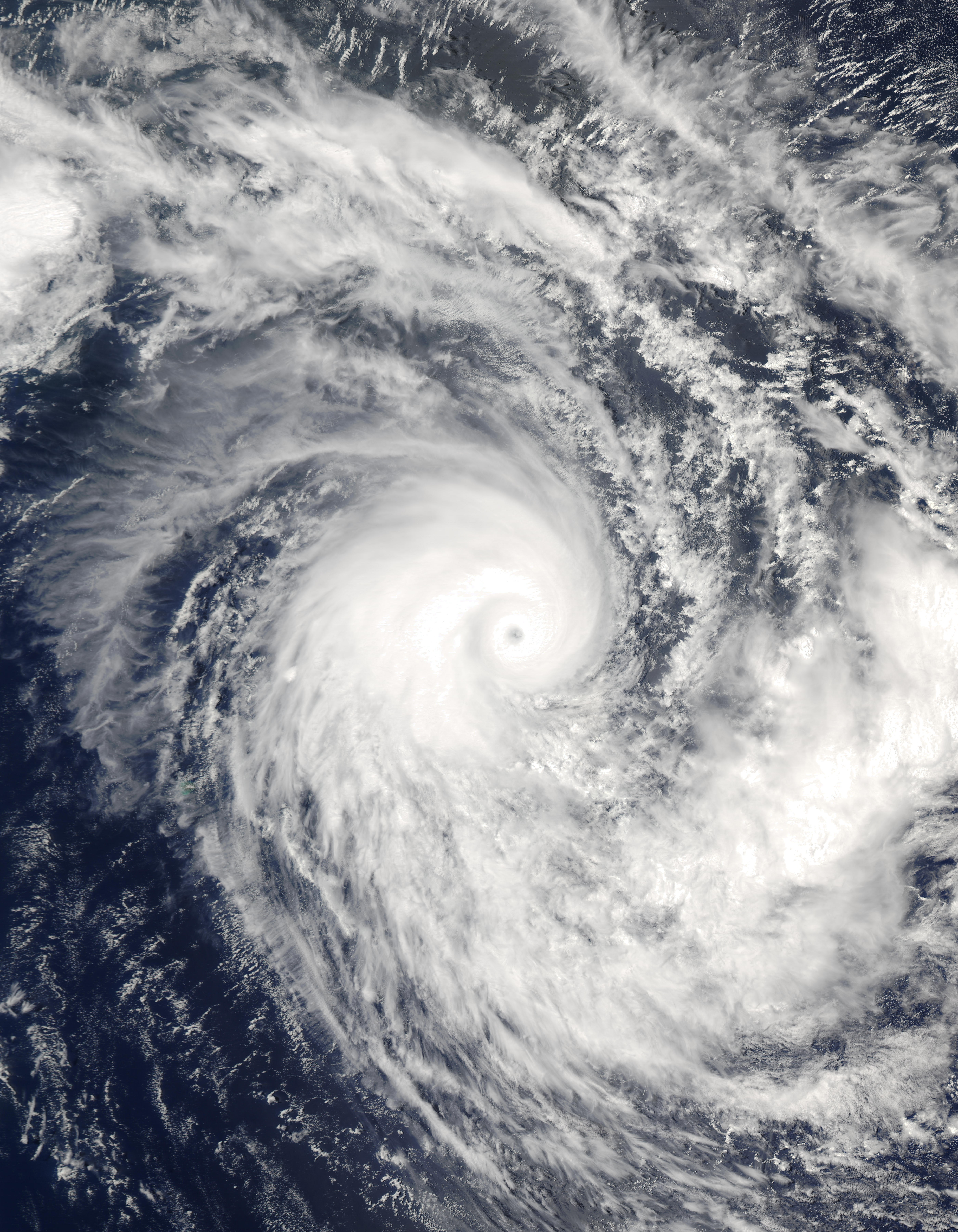 The Moderate Resolution Imaging Spectroradiometer (MODIS) on the Aqua satellite captured this image of Tropical Cyclone Frank (10S) spinning through the South Indian Ocean on February 2, 2004. At that time, Frank had winds of 144 miles per hour (232 kilometers per hour) with gusts up to 173 miles per hour (278 km/h). The storm was moving southeast, and posed no threat to land. The high-resolution image provided above has a resolution of 250 meters per pixel. The image is available in additional resolutions.